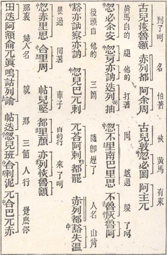 Layout of a 1908 Chinese re-edition of the Secret History of the Mongols: Yesügei steals Chiledu's wife, Hoelun, i.e. the future mother of Temüjin. Chinese transscription of the Mongolian text. On the right, with smaller characters, the Chinese-language glossary.